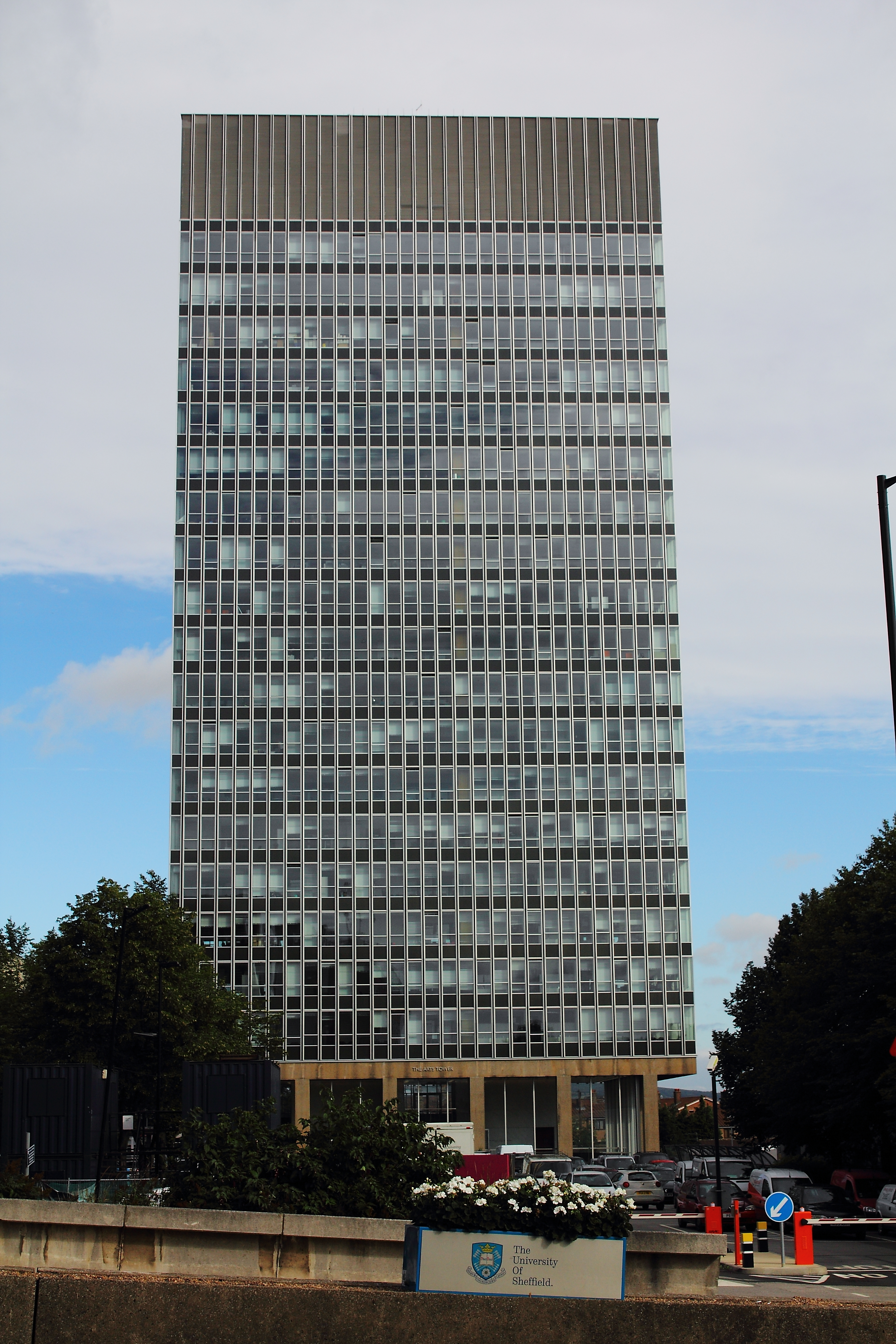 Shefuniarttower2012